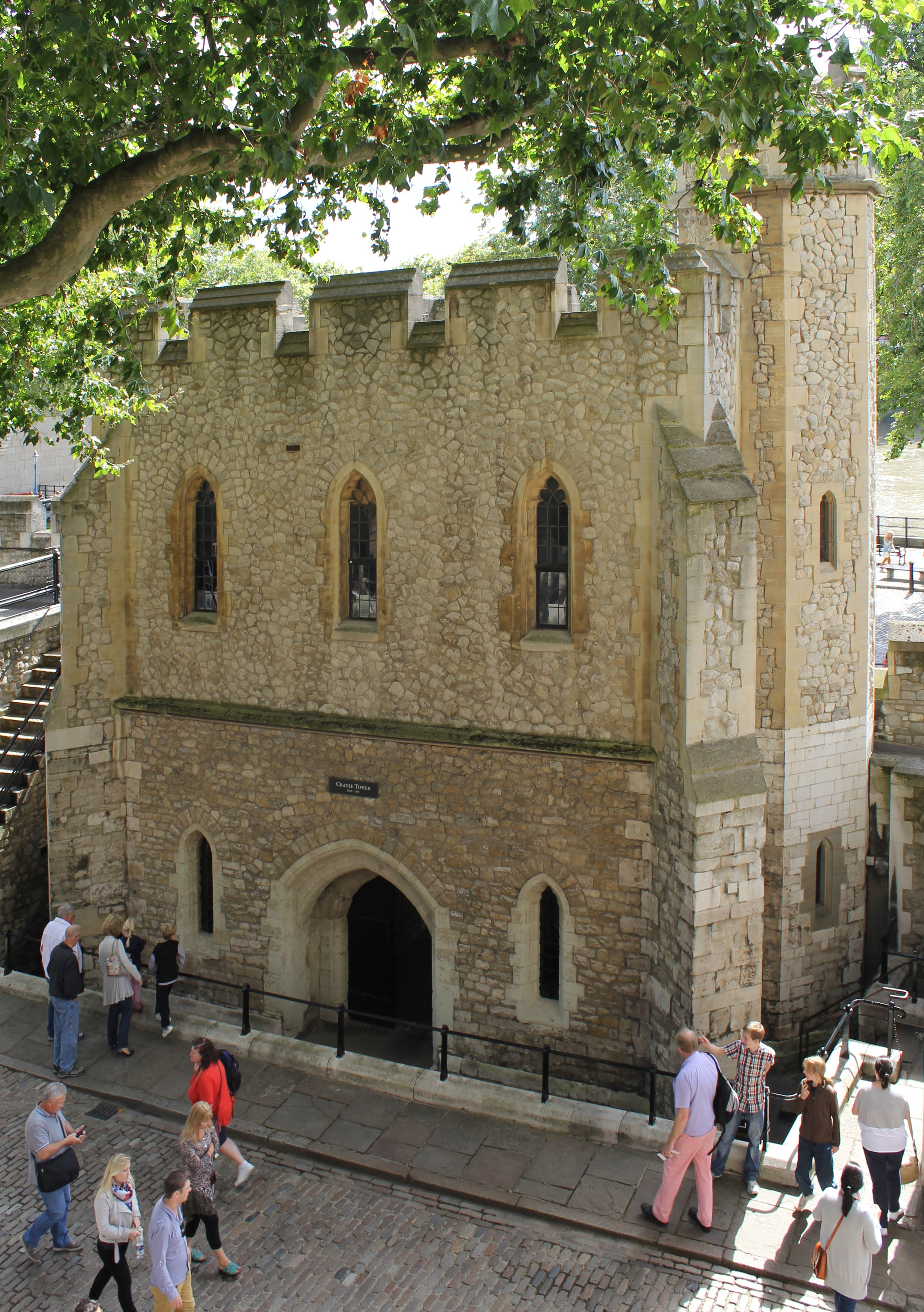 The Cradle Tower at the Tower of London Wikidata has entry Q17645576 with data related to this monument.